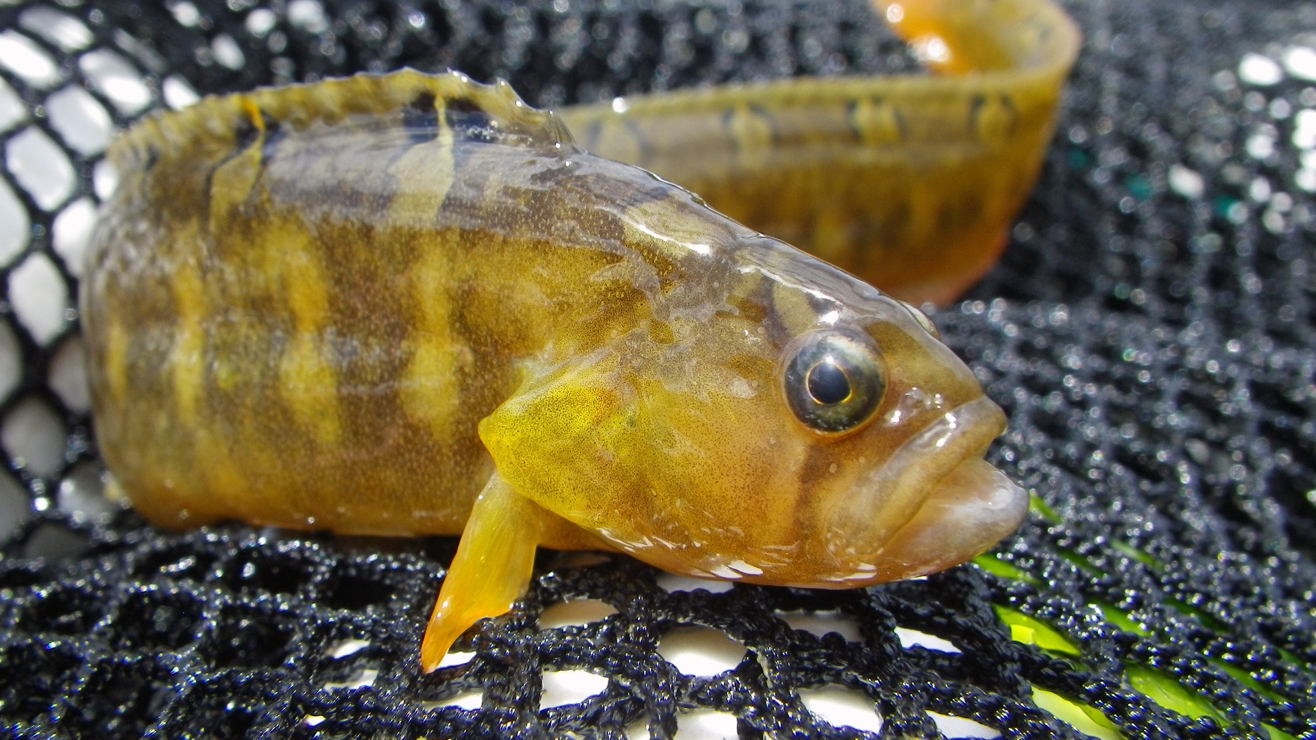 Crescent gunnel (Pholis laeta) collected in a beach seine by USGS Western Fisheries Research Center scientists while conducting a survey for juvenile surf smelt on Bainbridge Island, Washington, USA.